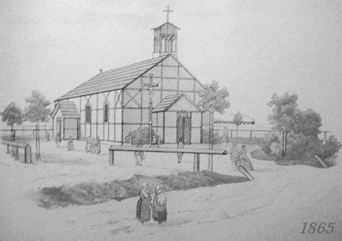 The first catholic church in Katowice